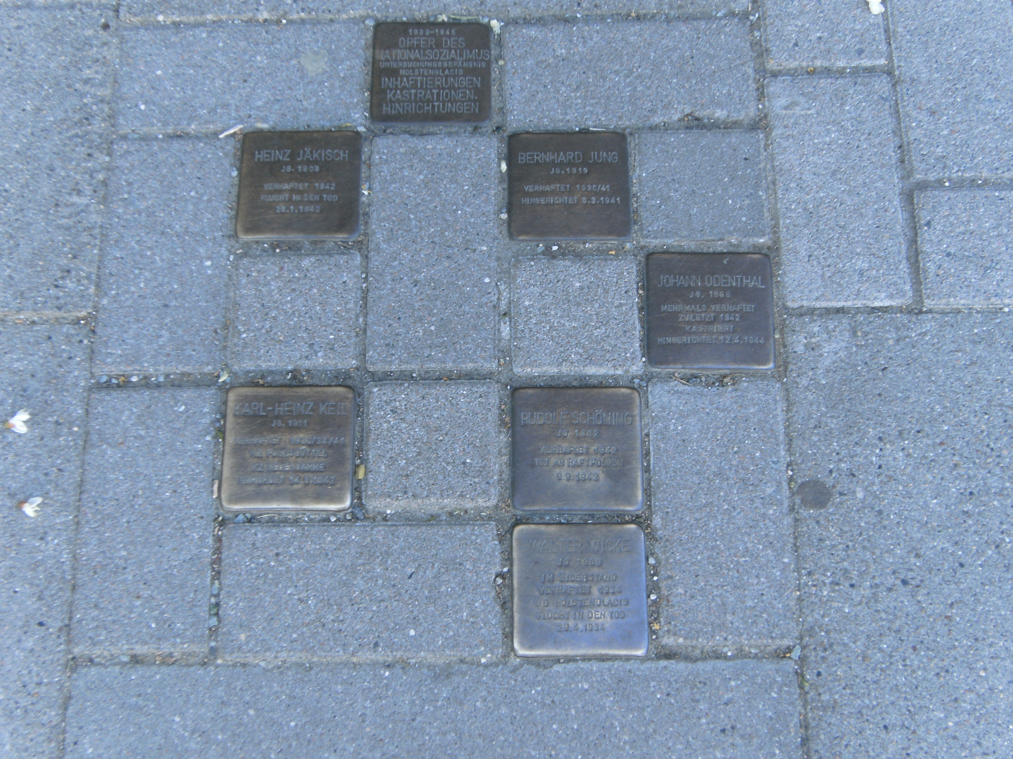 Hamburg, Germany, Untersuchungsgefängnis Holstenglacis, Holstenglacis 3: Stolperstein (German pronunciation: [ˈʃtɔlpɐˌʃtaɪn]; literally "stumbling stone", metaphorically a "stumbling block" for the persons executed in the Untersuchungshaftanstalt Hamburg, Germany.